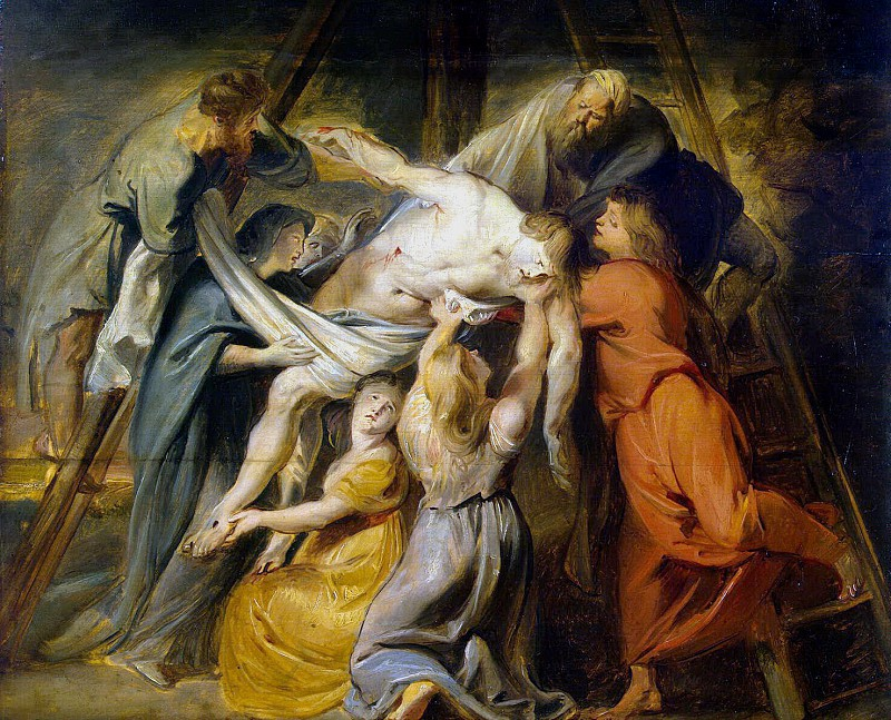 Rubens sketch, St.Petersburg